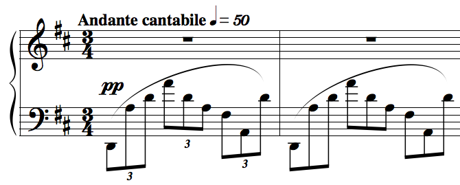 The first few measures of Preludes, Op. 23, No. 4. The set, composed by Sergei Rachmaninoff in 1901 was published before 1923, and thus is in the public domain.